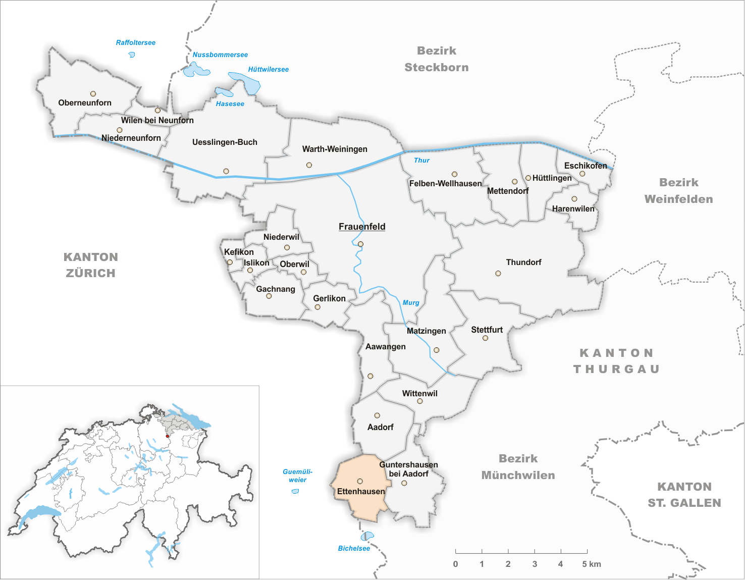 Municipality Ettenhausen